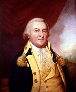 Subject: John Hoskins Stone Medium: Oil on canvas Dimensions: 29 x 24""